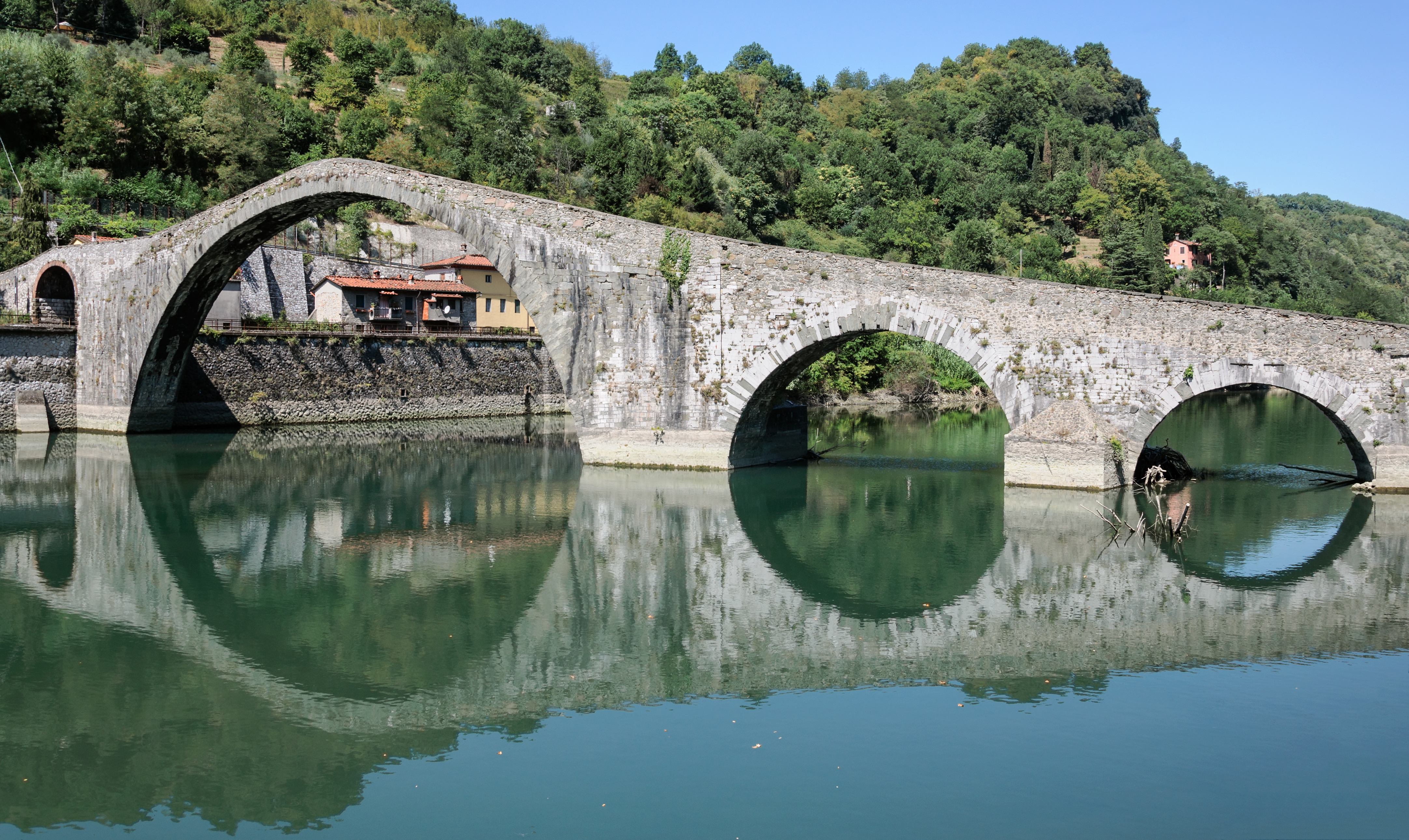 Ponte della Maddalena (Bridge of Mary Magdalene), also called Ponte del Diavolo (devil's bridge), a medieval bridge crossing the Serchio river at Borgo a Mozzano, Tuscany, Italy.